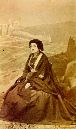 Teresa Makri, the subject of George Gordon Byron's poem "Maid of Athens, Ere We Part", in 1870, sixty years after Byron's poem.